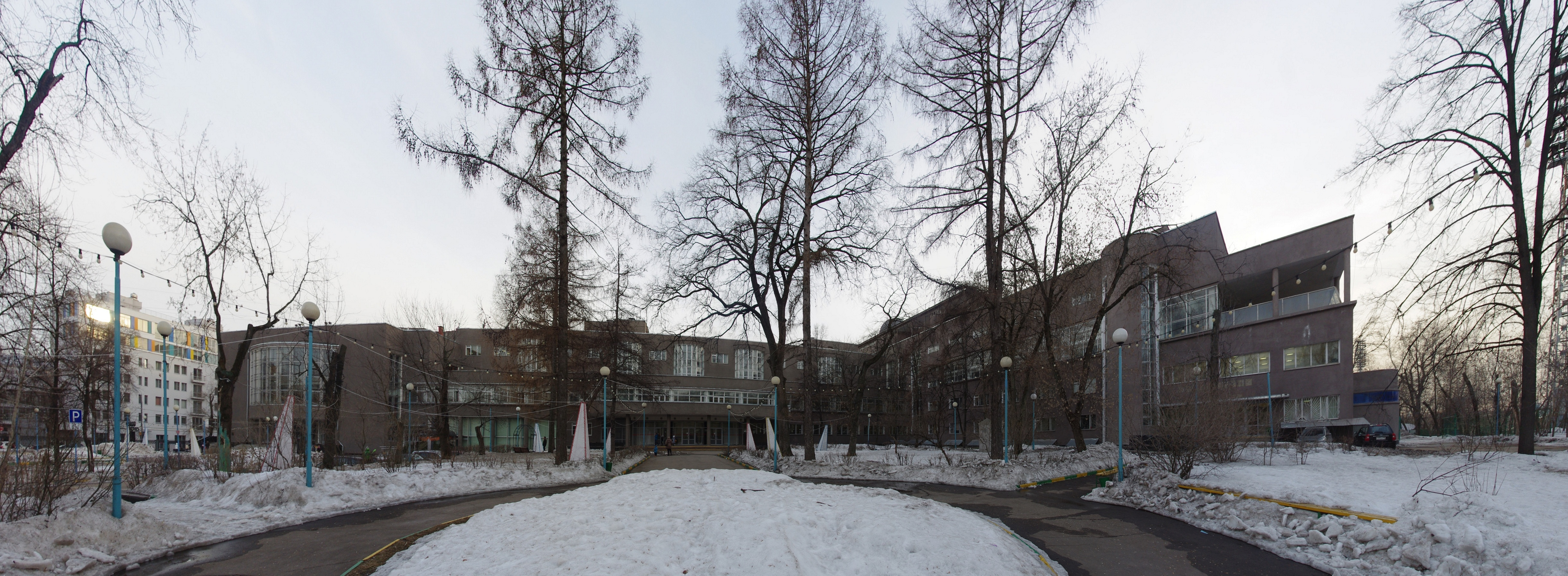 DK Zil in Moscow